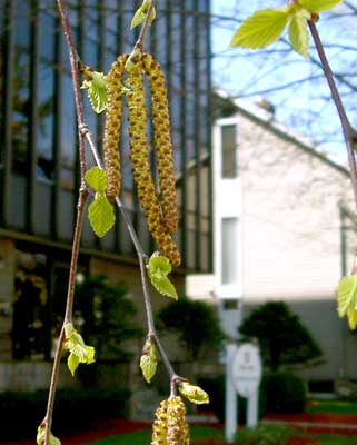 Paper Birch catkins. Betula papyrifera